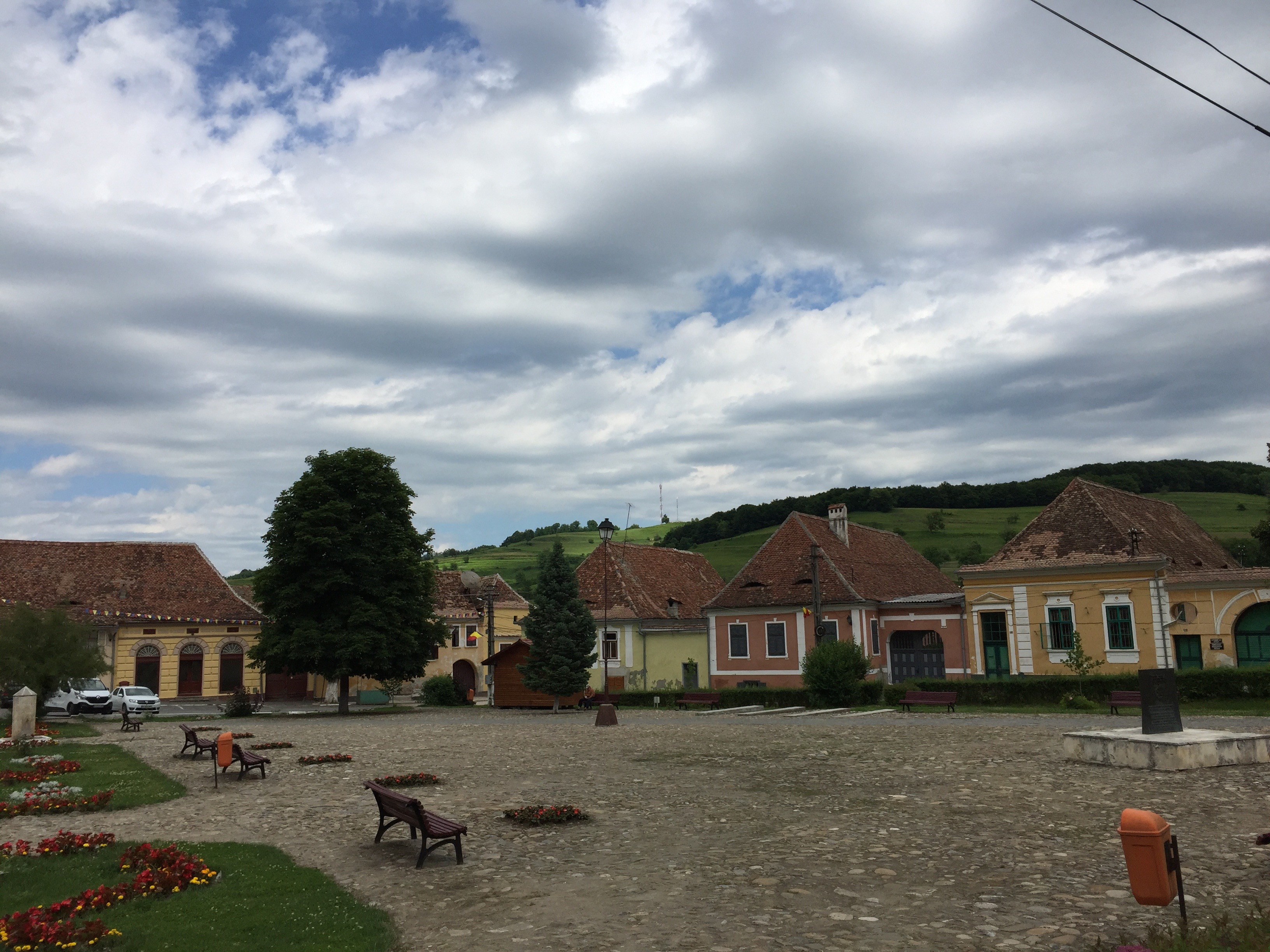 Center of the Transylvanian town of Biertan, with typical Transylvanian Saxons' houses. June 2017